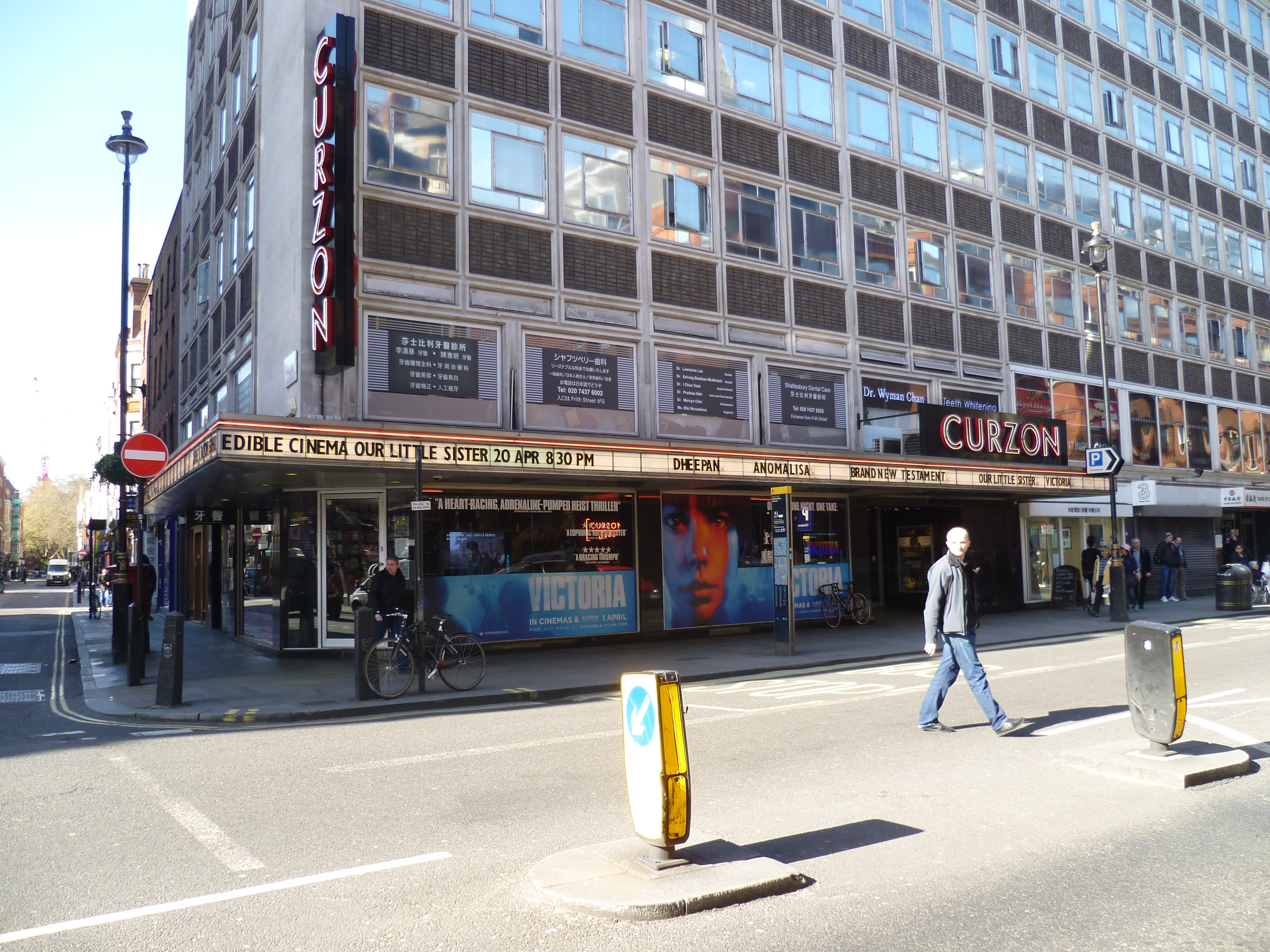 London, Curzon Soho cinema, 99 Shaftesbury Avenue